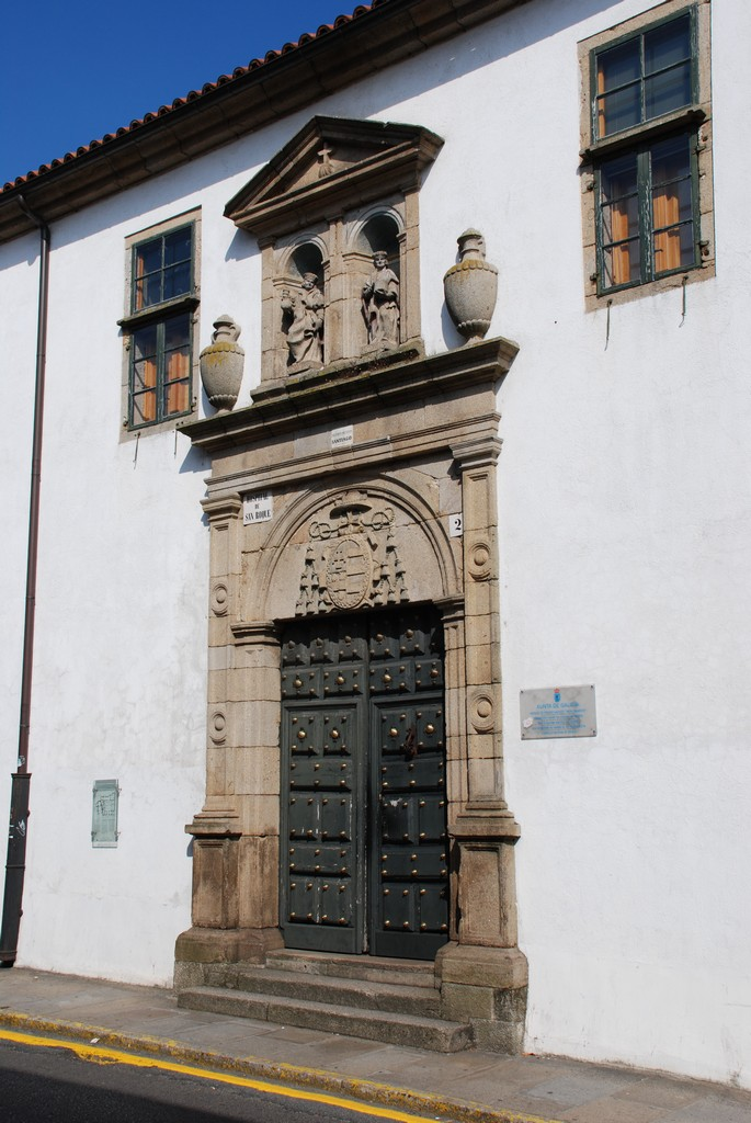 Hospital de San Roque Church of San Roque